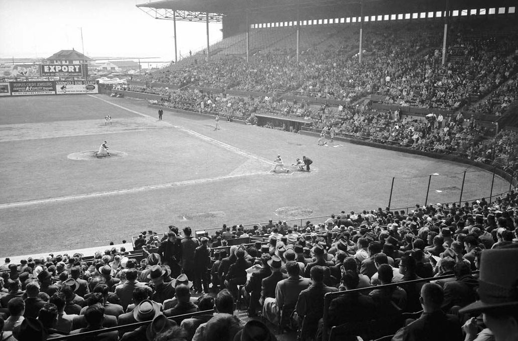 Home opener game of the Toronto Maple Leafs baseball club. Toronto, Ontario, Canada.